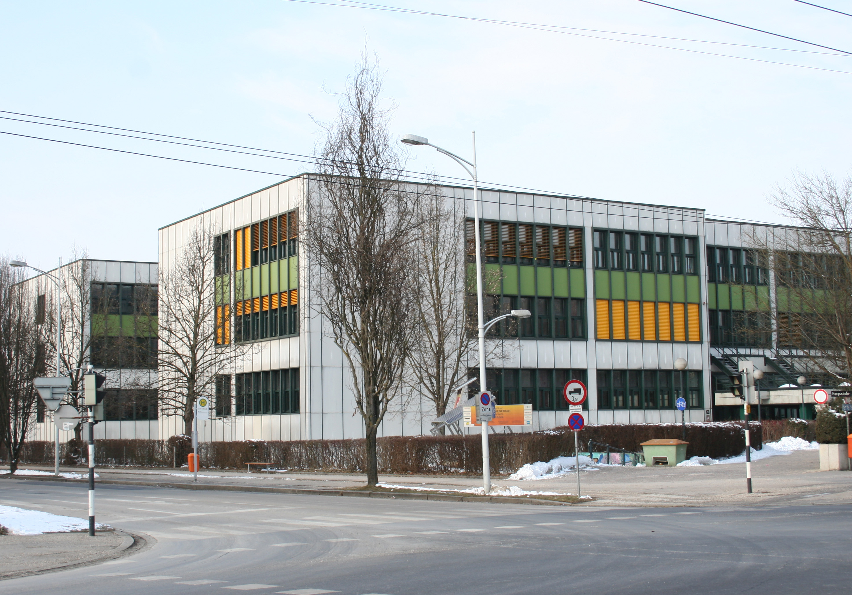 Bundesrealgymnasium Landwiedstrasse Linz / Austria